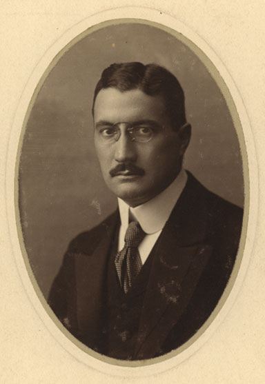 Franz Joseph Emil Fischer (* 19. März 1877 in Freiburg im Breisgau; † 1. Dezember 1947 in München)